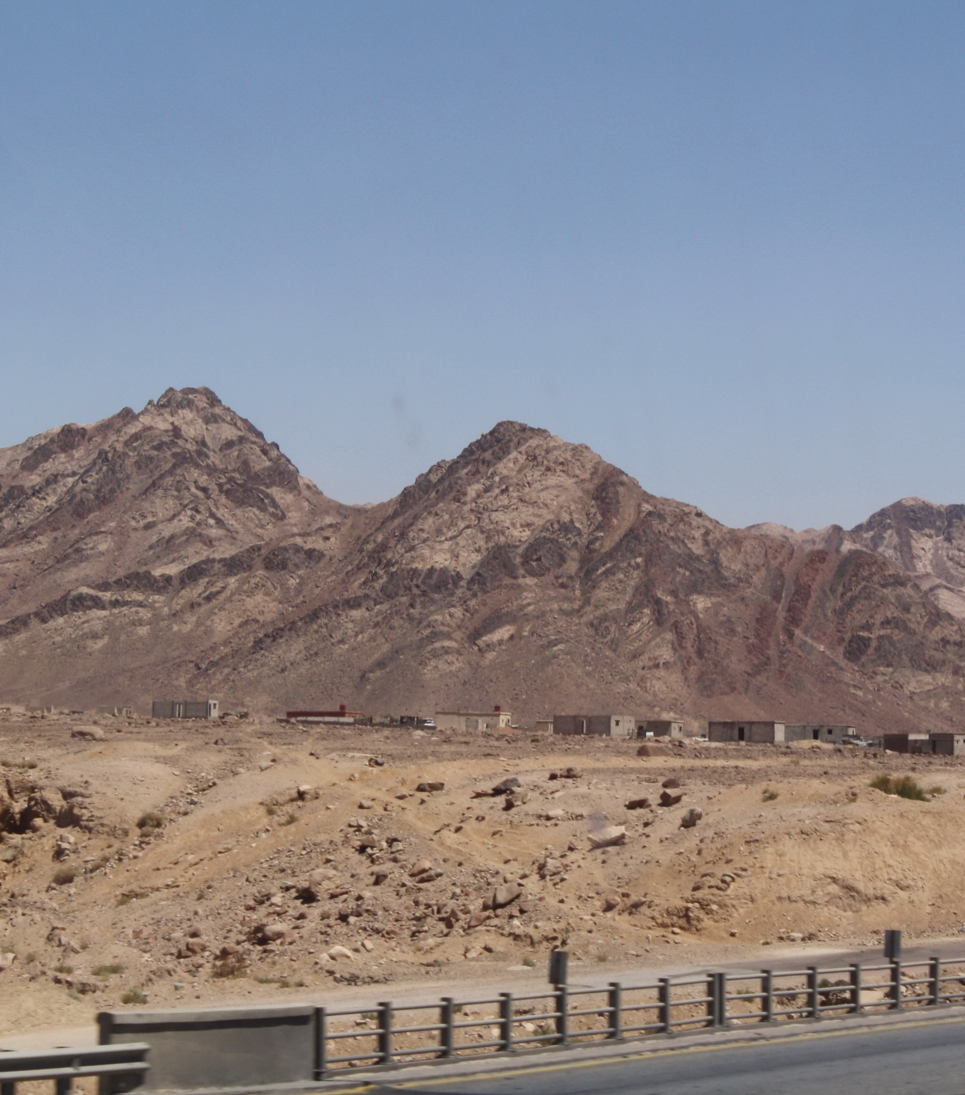 Aravah valley, Jordan